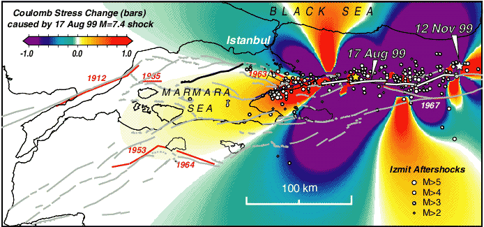 Nov 12, 1999 (M=7.2) Aftershock: 1999 İzmit earthquake